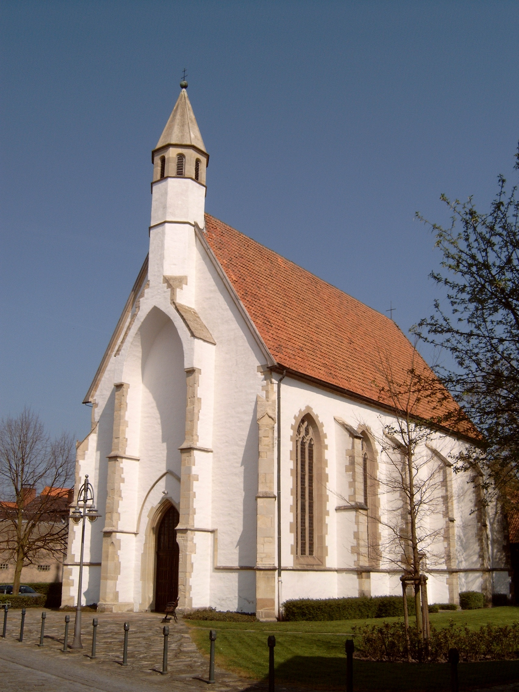 Steinfurt, church